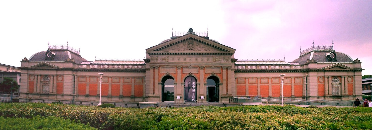 Kyoto National Museum